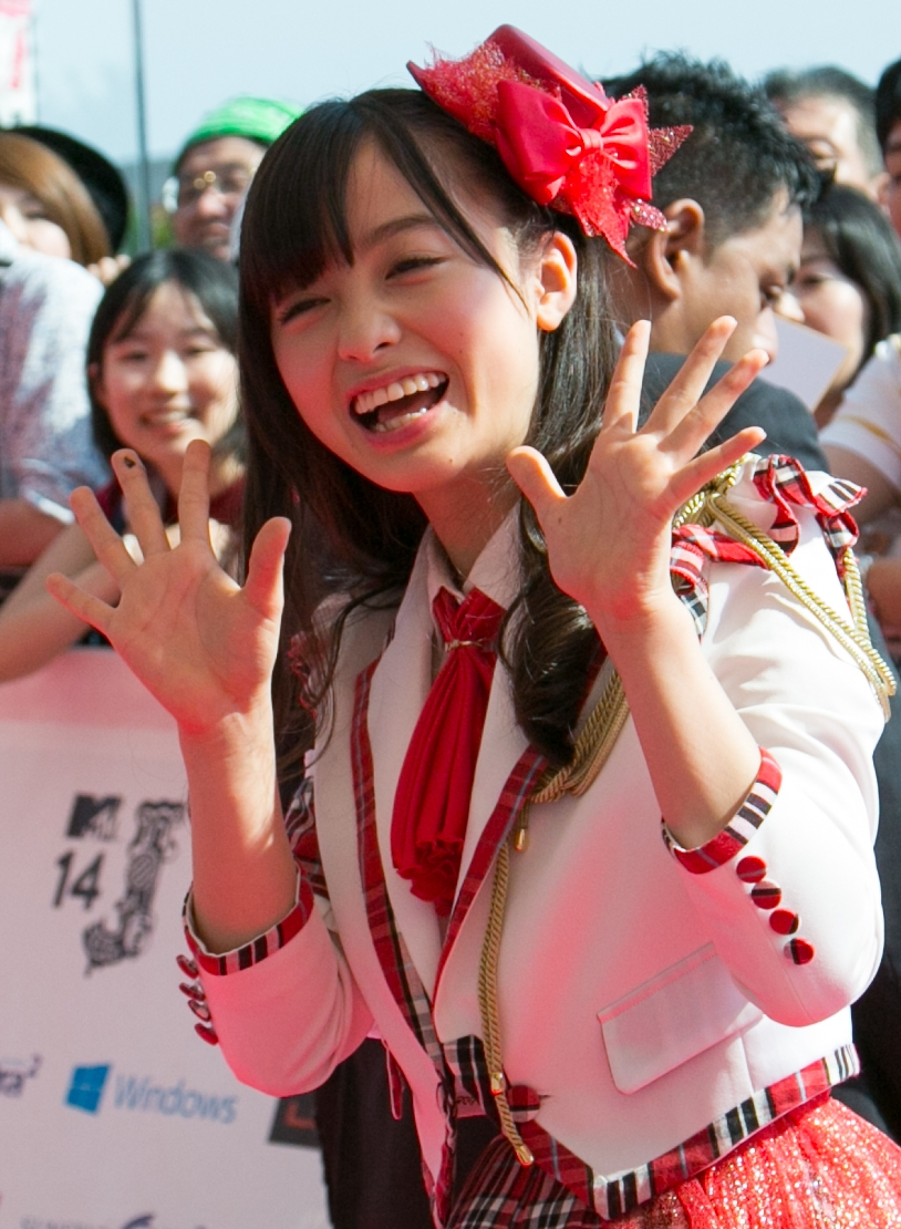 Japanese idol Kanna Hashimoto at the 2014 MTV Video Music Awards Japan.